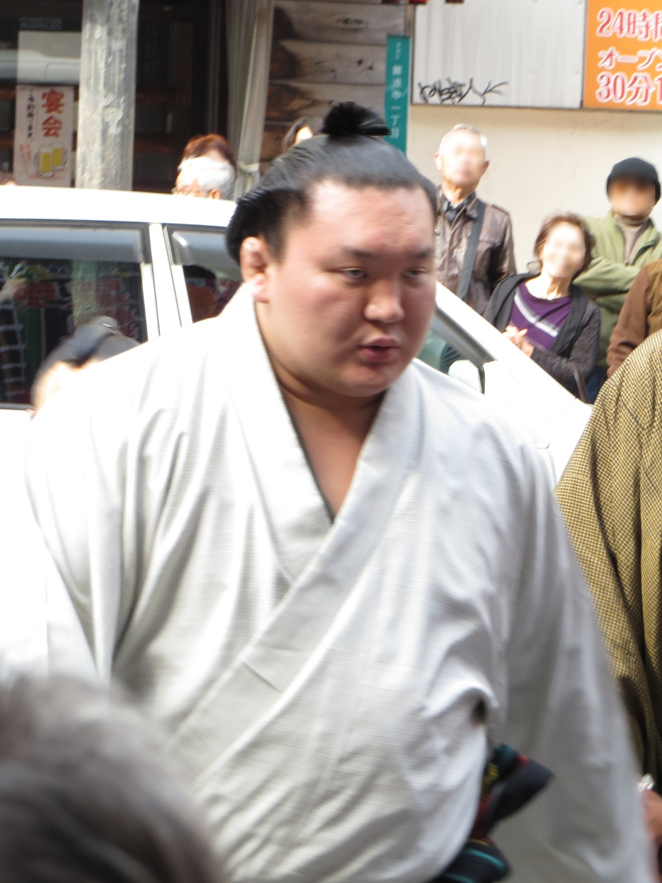 Hakuhō Shō in Haru (Spring) Basho 2013, Osaka.